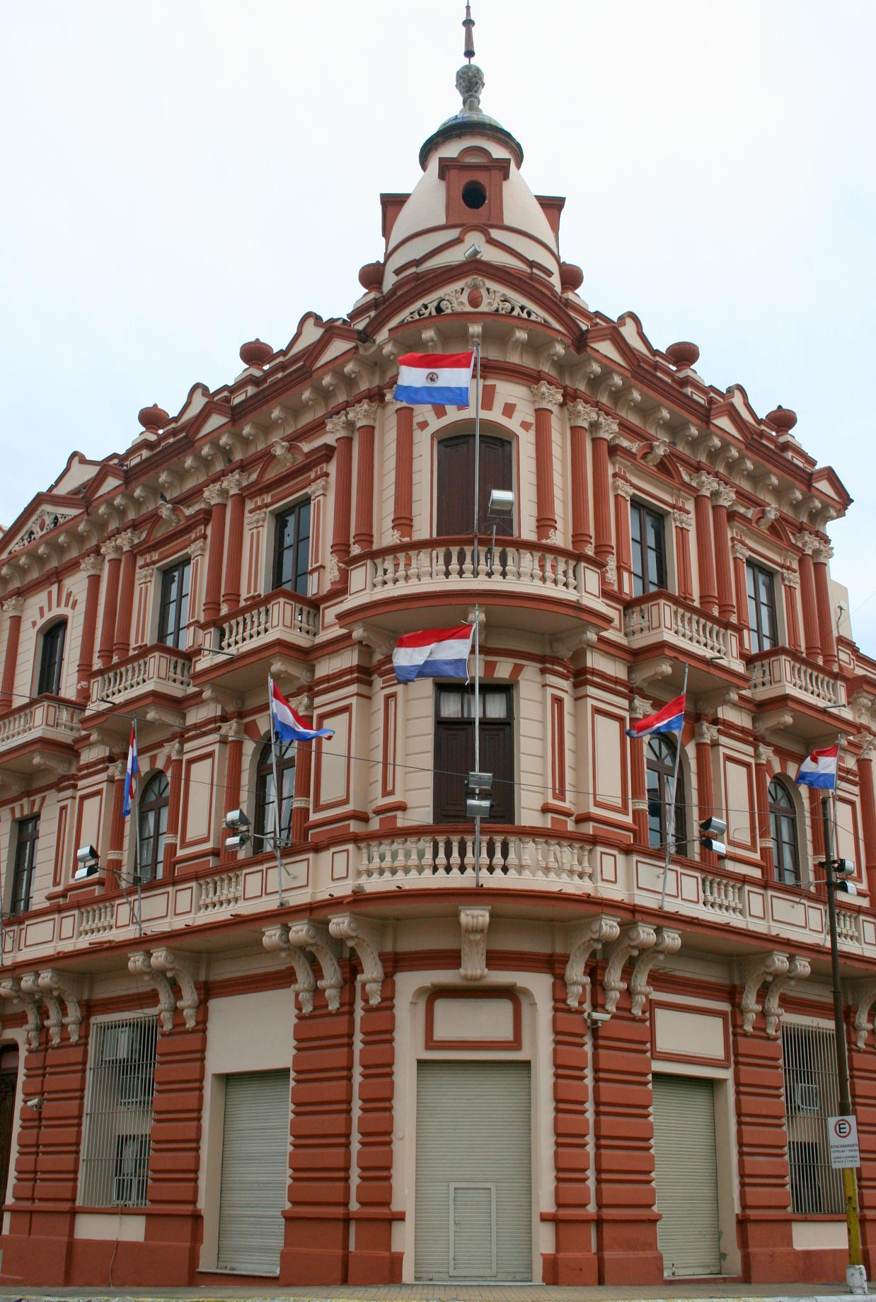 Build of the Bicentenary of Paraguay Republic.